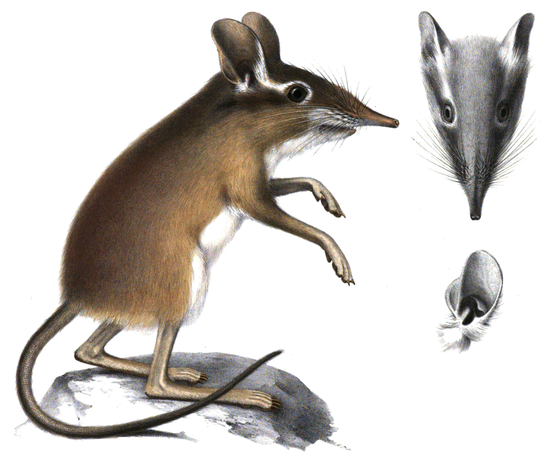 Drawing of Petrodromus tetradactylus, printed in Wilhelm Peters: Naturwissenschaftliche Reise nach Mossambique: auf Befehl seiner Majestät des Königs Friedrich Wilhelm IV in den Jahren 1842 bis 1848 ausgeführt. Berlin, 1852, pp. 1–205 (pl. 20)